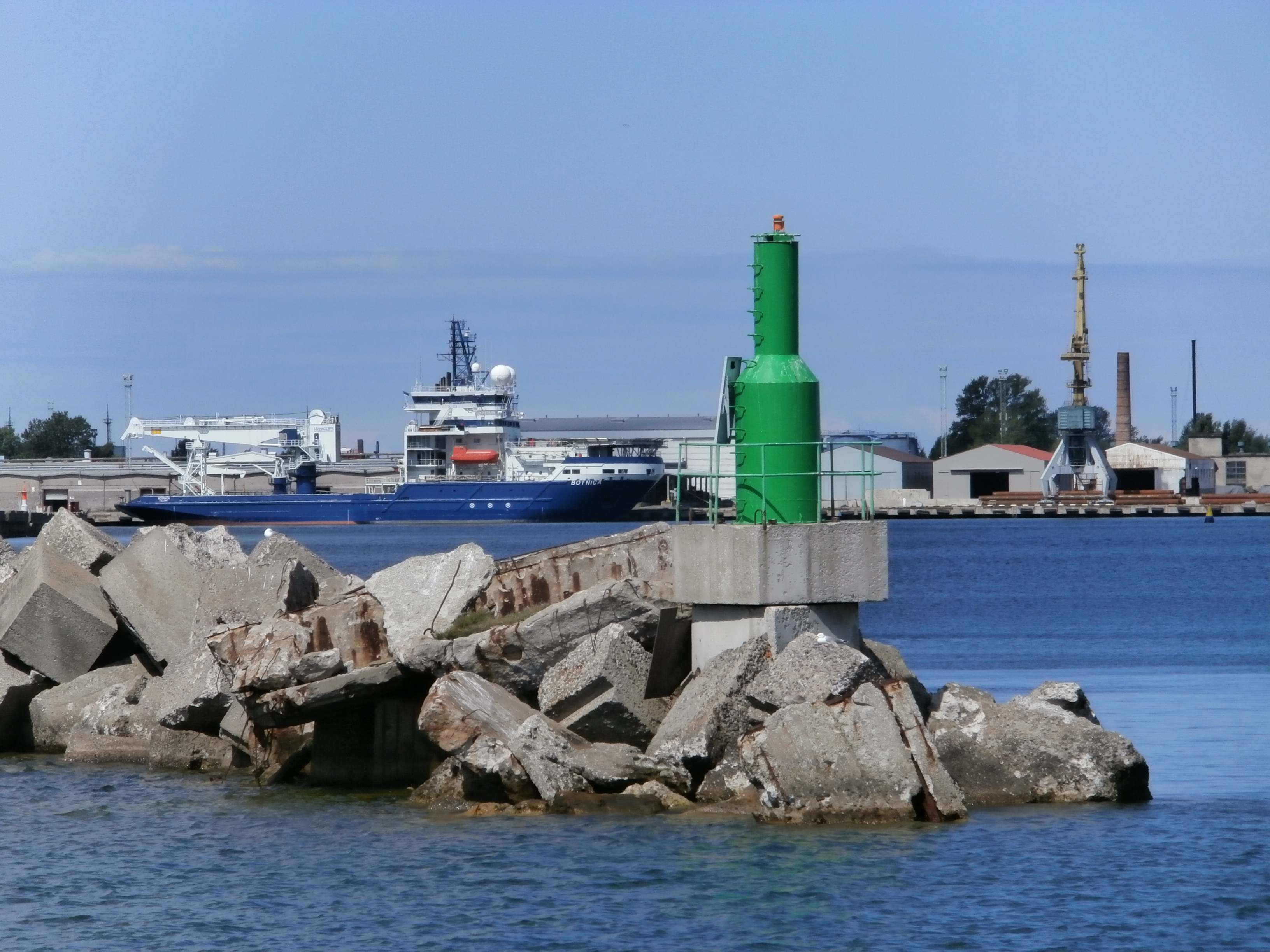 Icebreaker Botnica in Paljassaare sadam Tallinn